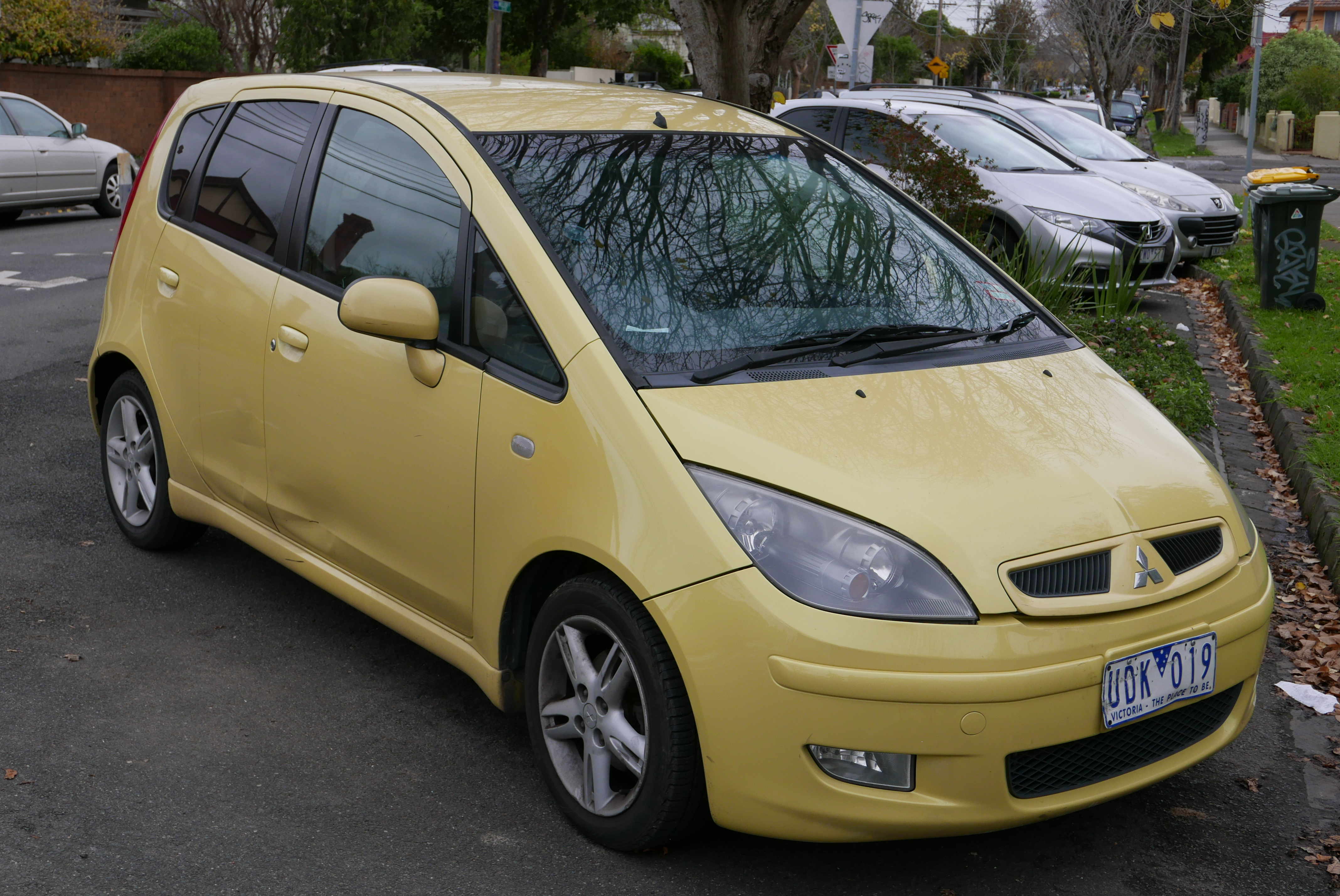 2005 Mitsubishi Colt (RG) XLS 5-door hatchback. Photographed in Fitzroy North, Victoria, Australia. Vehicle registration enquiry resultsJurisdictionVictoriaRegistrationUDK019Chassis codeJMFXSZ27A4Z002996Engine code4G15GJ6196Compliance date2005-03Year of manufacture2005